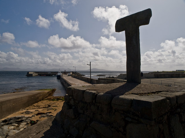 Tau Cross and West Pier, Toraigh One of only two tau crosses in Ireland. So named because of its resemblance to the Greek letter of the same name, the tau cross is a very early Christian symbol - this one is believed to date from the 12th century.